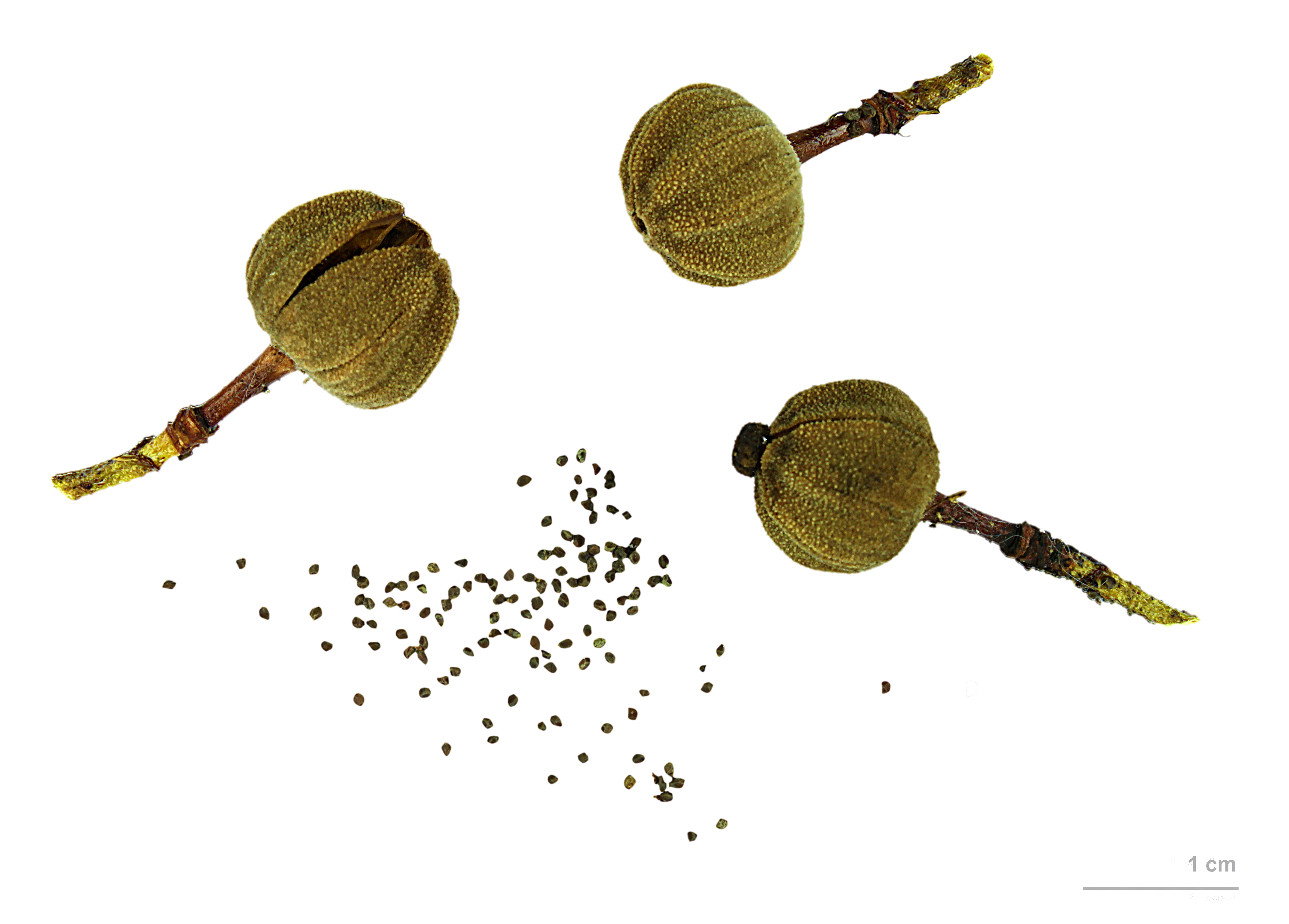 gum rockrose, Capsules and seeds